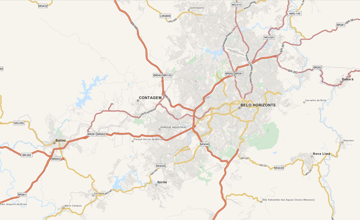 This map may be incomplete, and may contain errors. Don't rely solely on it for navigation.